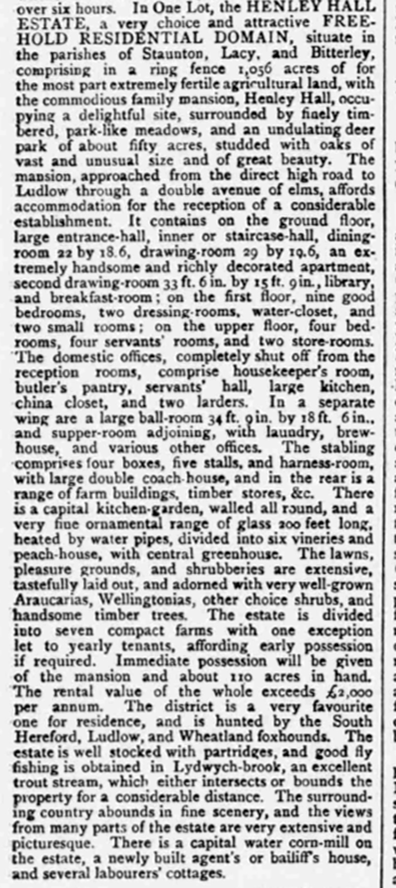 Sale notice for Henley Hall, Ludlow, 1874